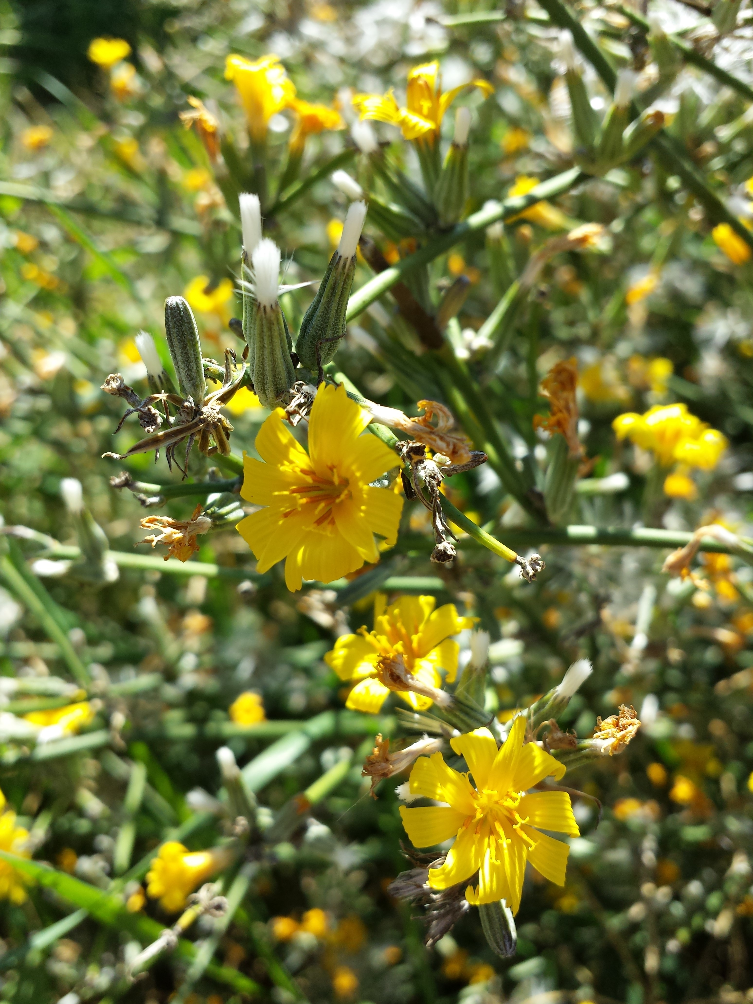 Florescence Taxon: Chondrilla juncea (sensu Fischer et al. EfÖLS 2008; det. M. A. Fischer 2013-09-28) Location: to the east of Herrenholz, Stammersdorf, Vienna-Floridsdorf - ca. 200 m a.s.l. Habitat: wayside beside a wine yard